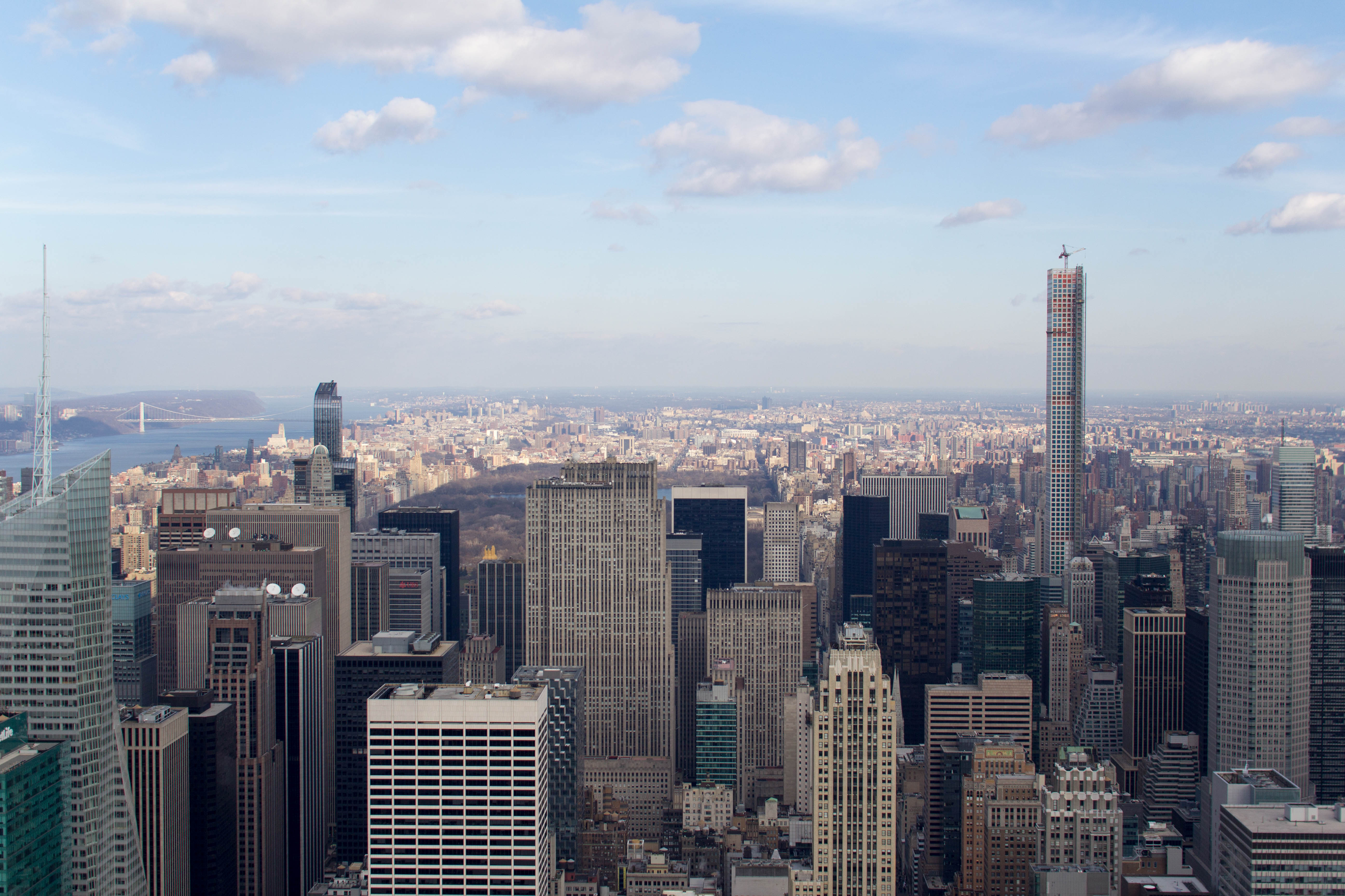 Midtown Manhattan, early January 2015. To the right: 432 Park Avenue under construction.